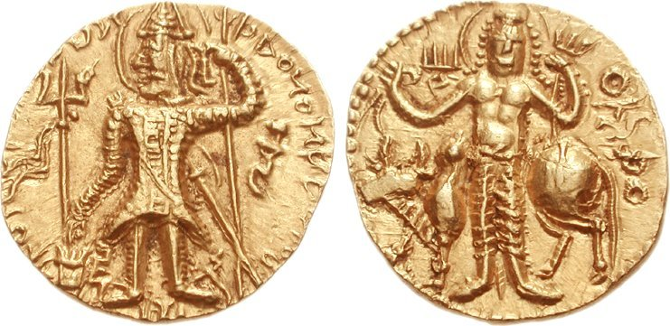 Gold Dinar of Vasishka (as Vaskushana) Circa CE 240-250